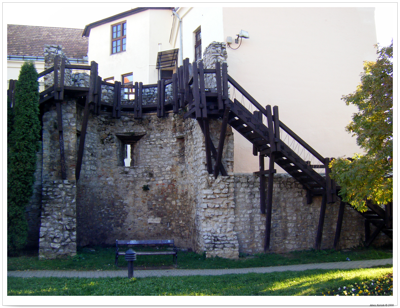 The old town's wall in Pecs.